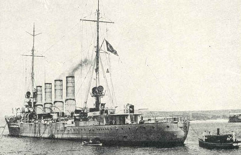 The Ottoman cruiser Midilli.